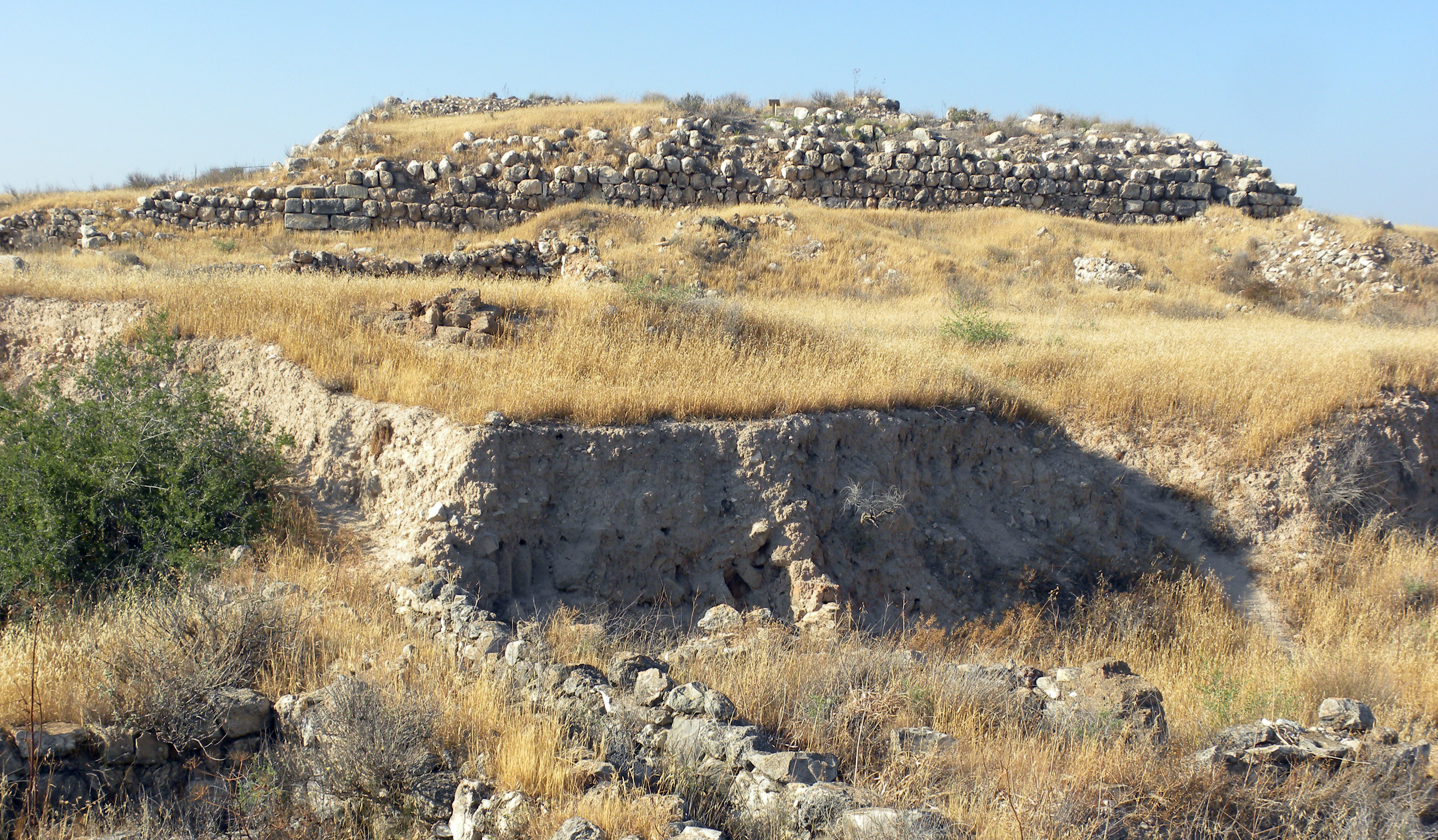 Commander's house, Lachish archaeological site.